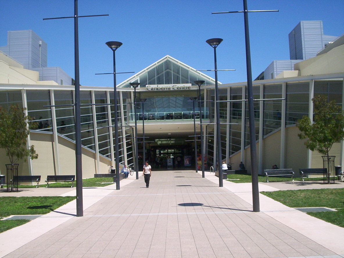 New front of the Canberra Centre. I took the photo Cfitzart 06:11, 23 August 2005 (UTC)